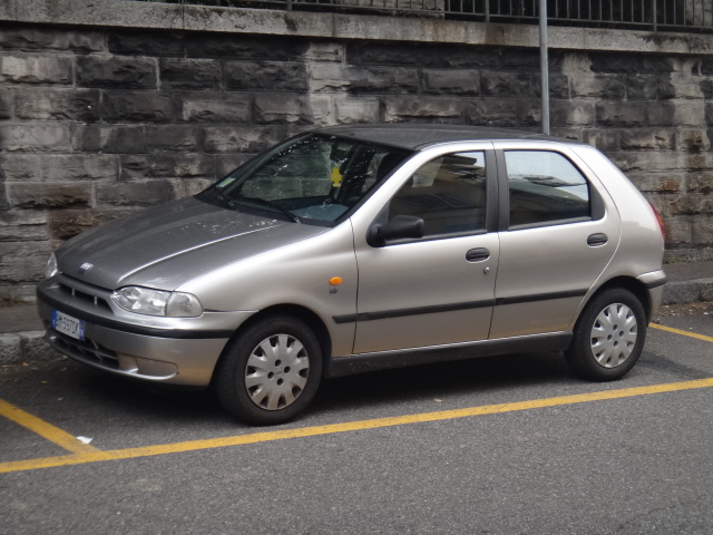 Well, these things were everywhere and in all body styles!